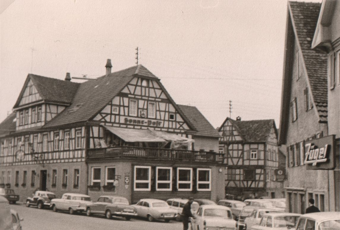 One of the photographs taken around or relating to the fur trade center Niddastrasse, Frankfurt am Main, Germany.